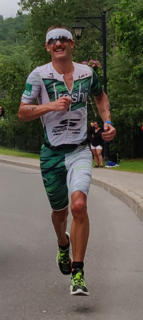 Lionel Sanders running in Mont Tremblant 70.3 in 2018